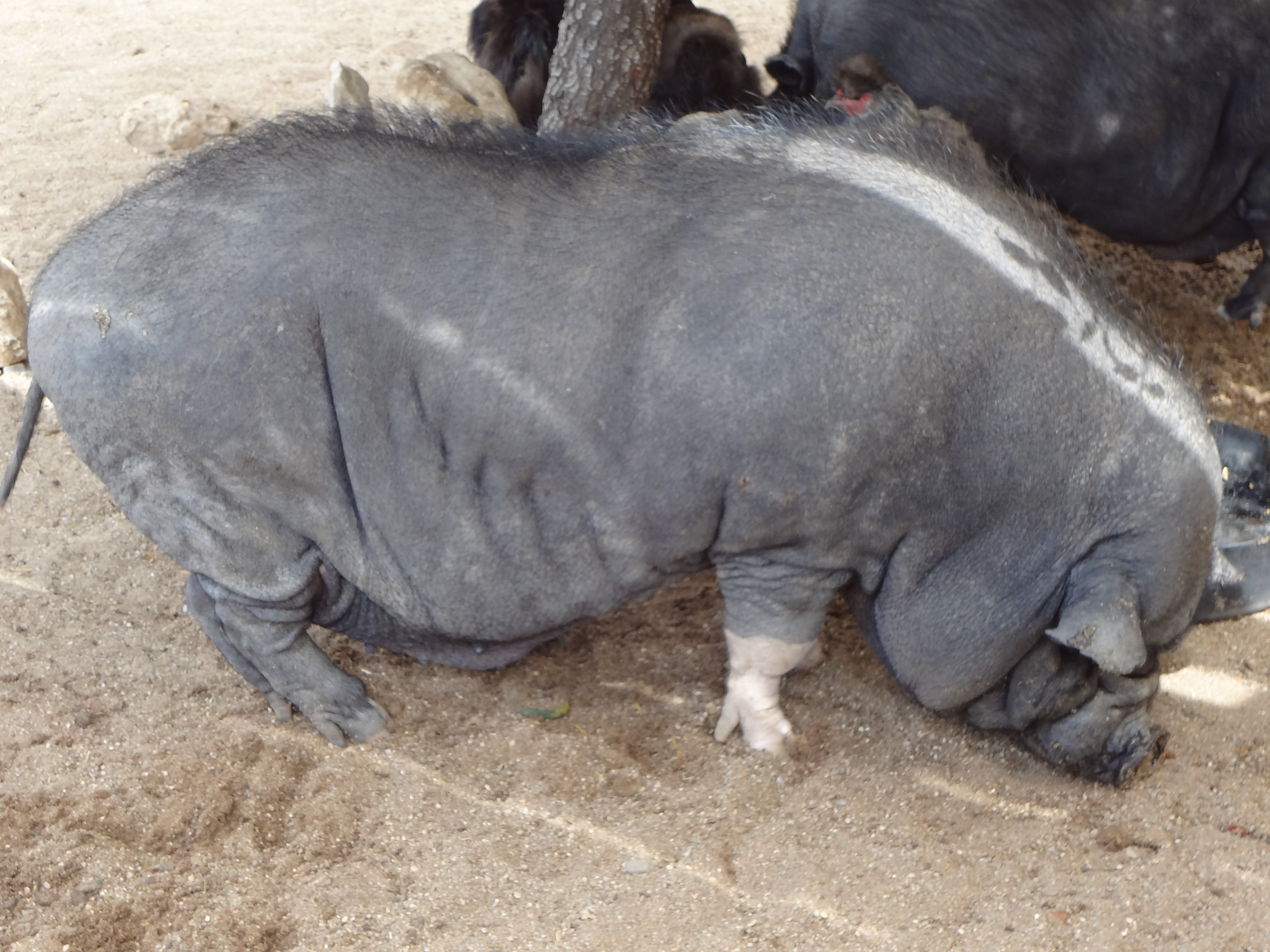 Faunia in Madrid, Spain